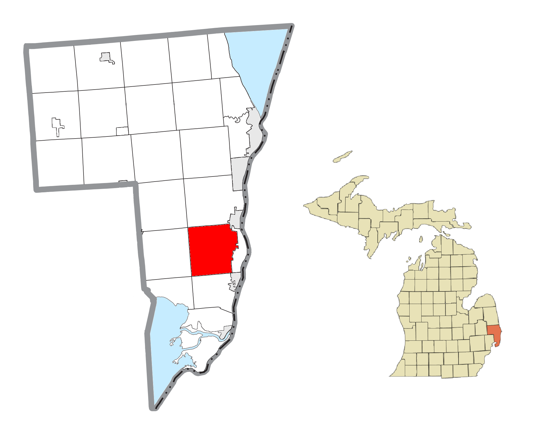 China Charter Township, MI